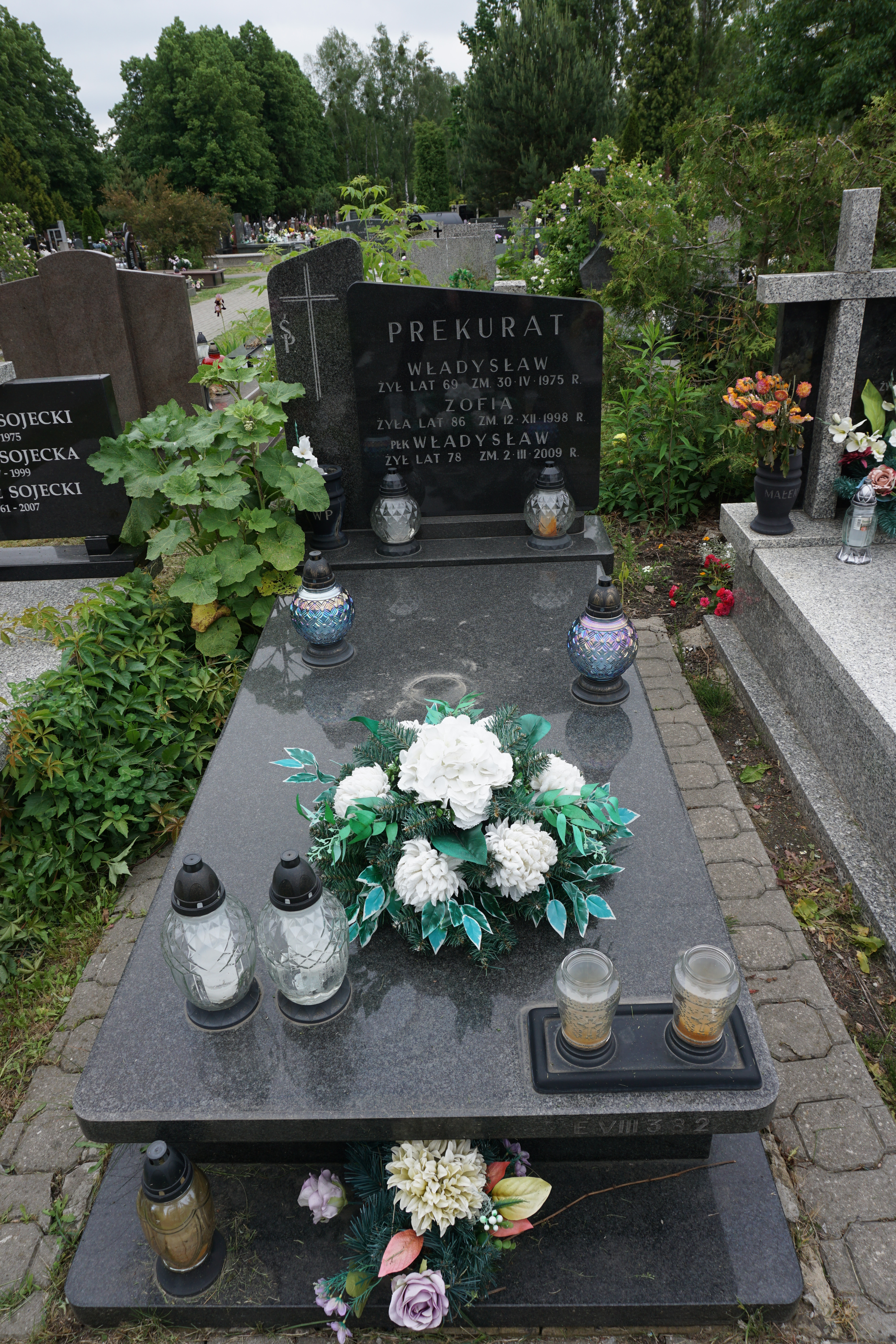 The grave of Władysław Prekurat at the North Municipal Cemetery in Warsaw (section E-VIII-3, row 8, grave 2)